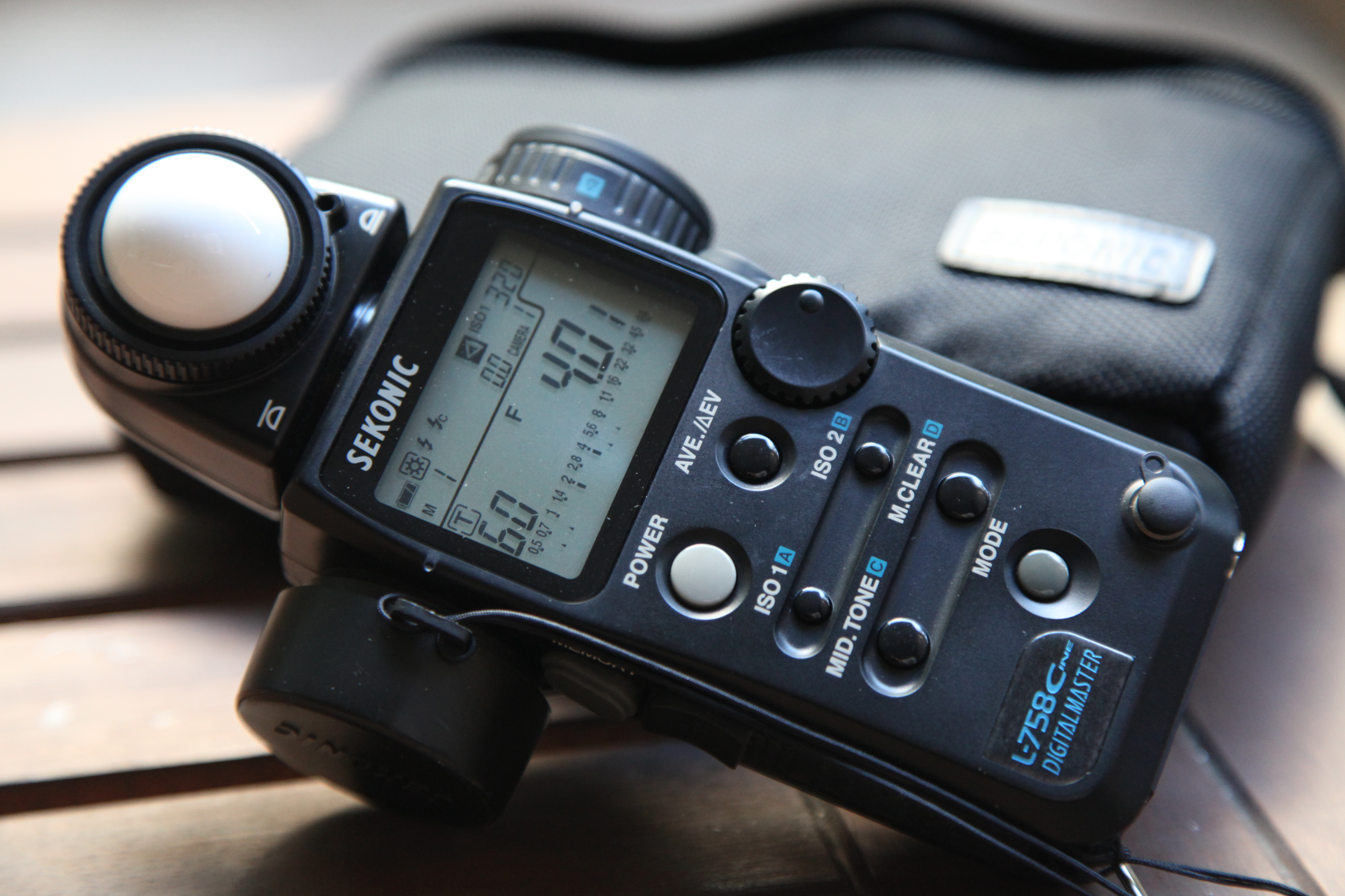 Sekonic Digital Master L758 cine